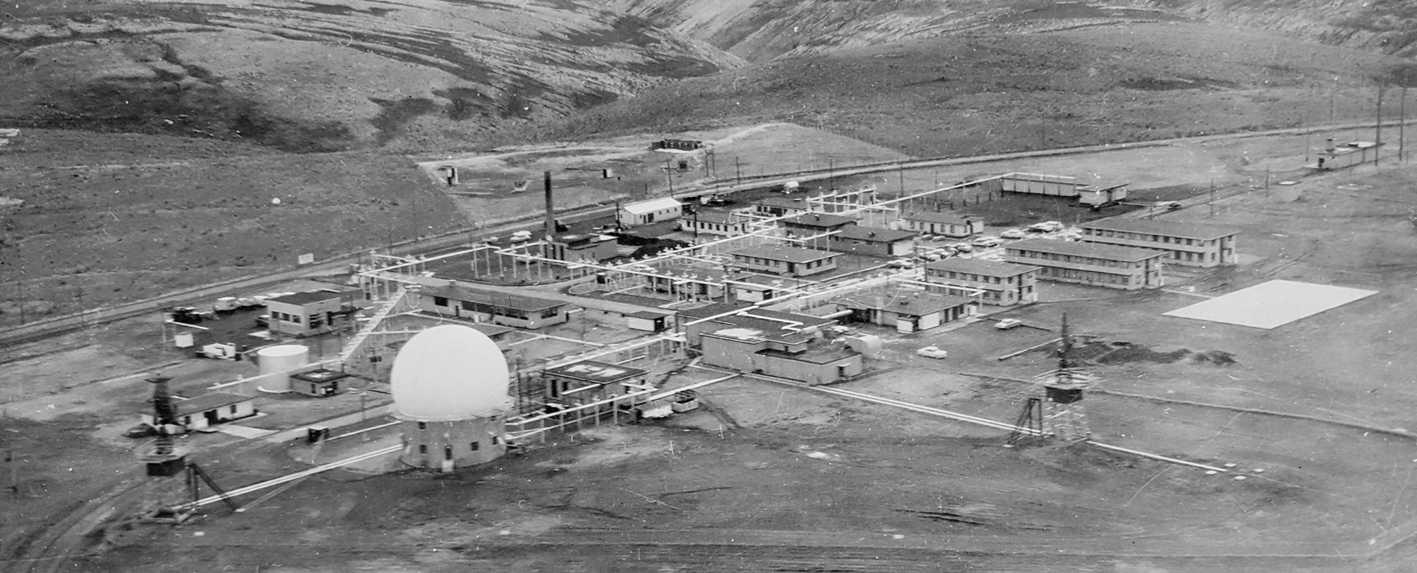 Condon AFS circa 1962, public domain, photo of an unattributed photo assumed to be an official USAF photo at the Gilliam County Historical Society in Condon.